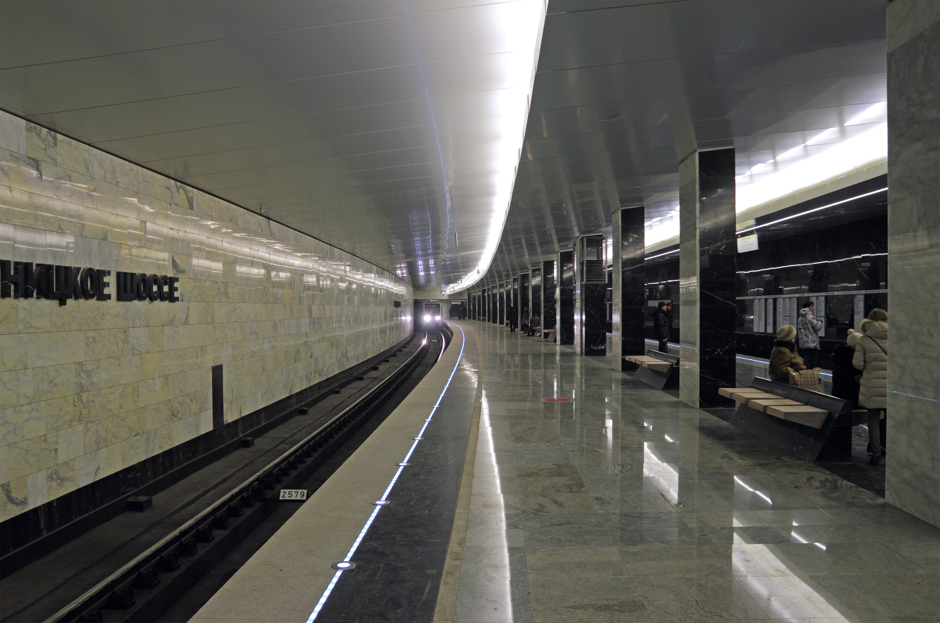 Moscow, Russia: platform of Pyatnitskoe Shosse metro station.